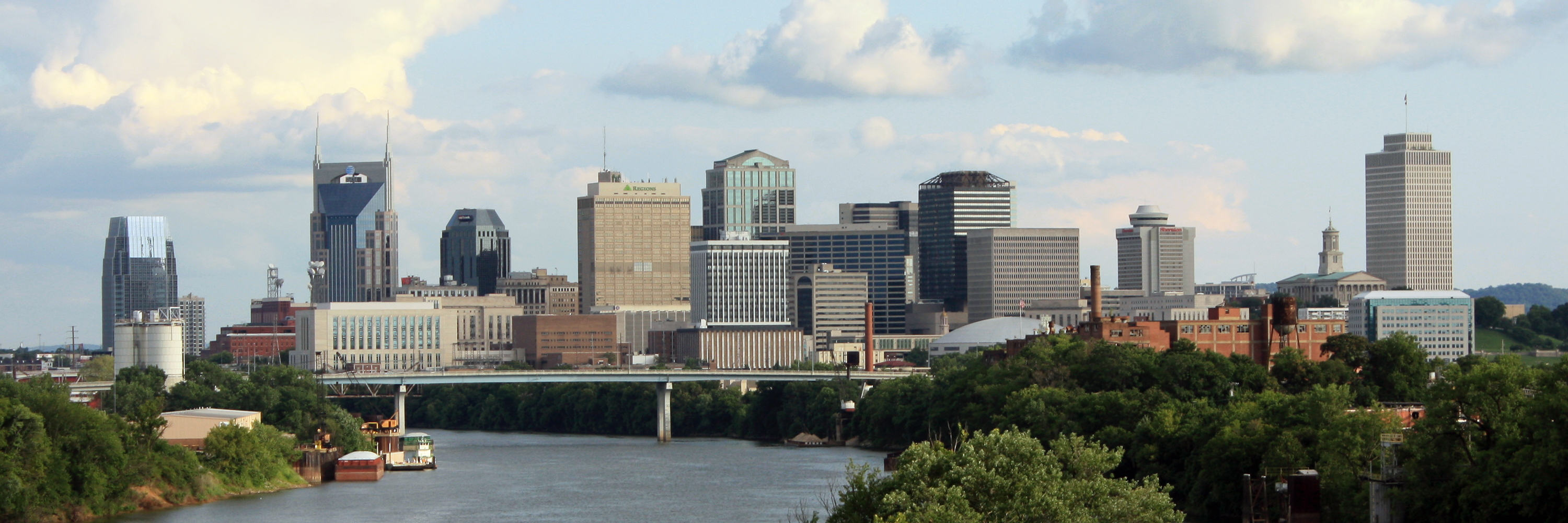 Panorama of the Nashville Skyline